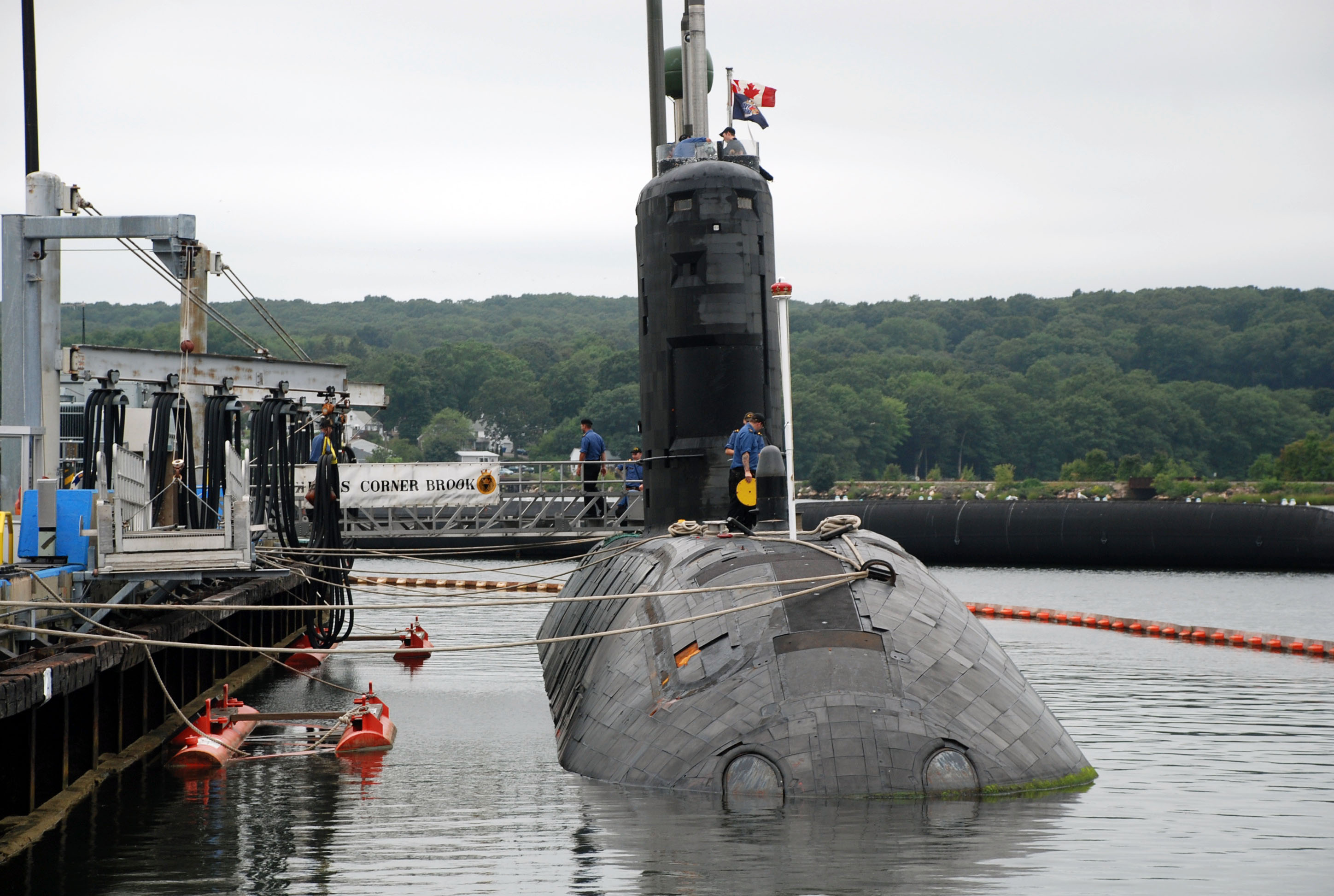 GROTON, Conn. (Aug. 16, 2010) The Canadian navy Victoria-class long-range patrol submarine HMCS Corner Brook (SSK 878) arrives at Naval Submarine Base New London for a scheduled port visit. (U.S. Navy photo by Mass Communication Specialist 1st Class Steven Myers/Released)